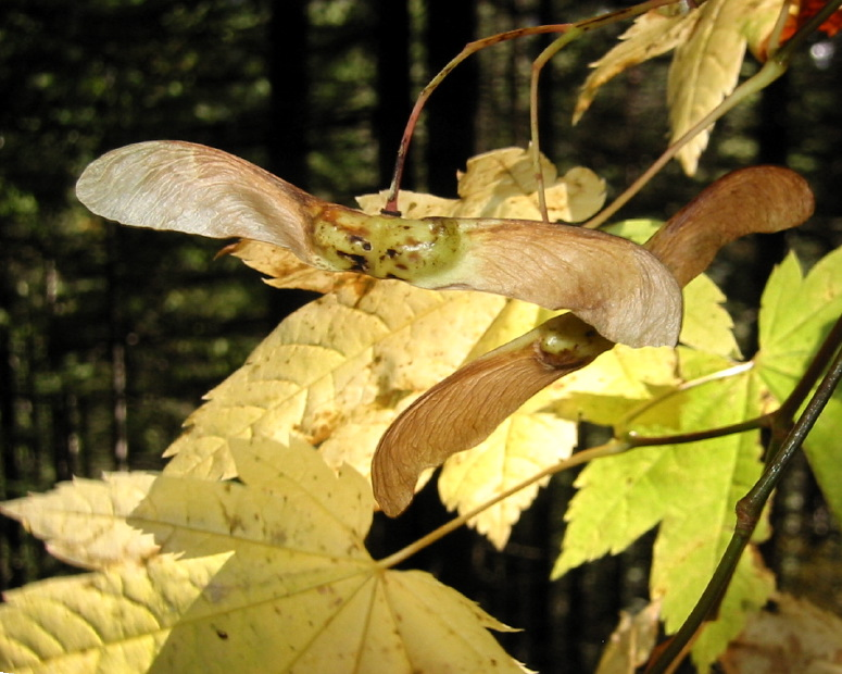 Vine Maple samara Description: Vine Maple (Acer circinatum) samara with fall foliage behind in a Douglas-fir forest. Viewpoint location: Kachess Ridge Trail 1315. Kachess Ridge is located in Wenatchee National Forest, Washington, USA, about 26 km southeast of Snoqualmie Pass. GPS: UTM 10 638643E 5237463N (WGS84/NAD83) USGS Kachess Lake Quad [1] Viewpoint elevation: 3160' View direction: Date and time: 2005:10:04 13:39:47 PDT Camera: Canon PowerShot S110 Photographer: Walter Siegmund ©2005 Walter Siegmund